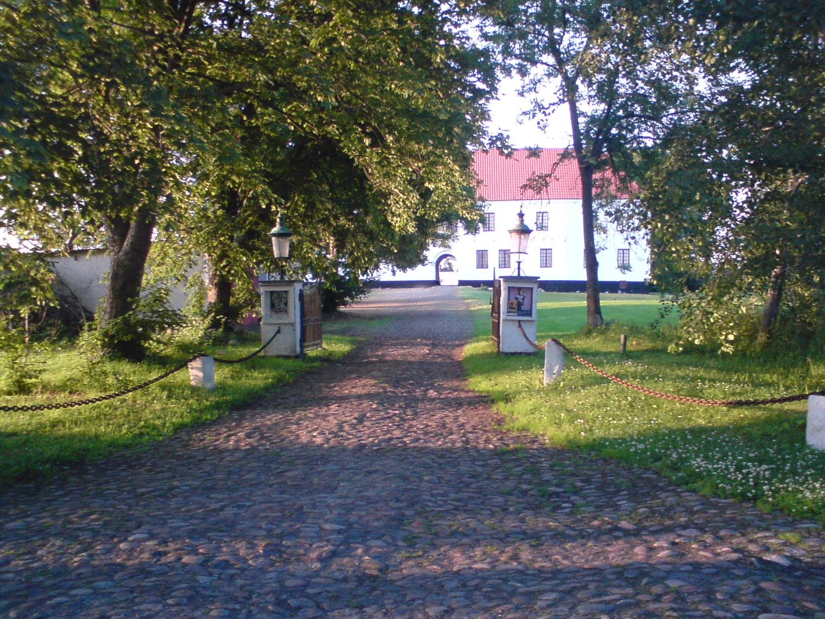 Odden Mansion in Vendsyssel